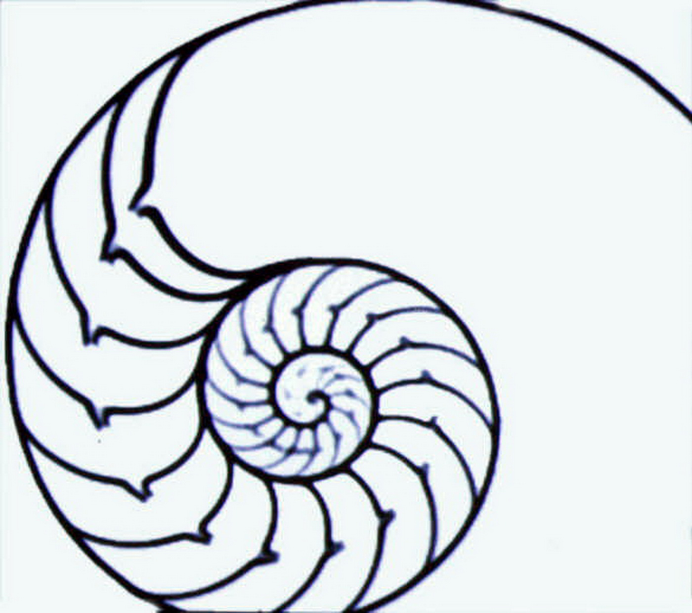 CT-scan of seashells : Nautilus